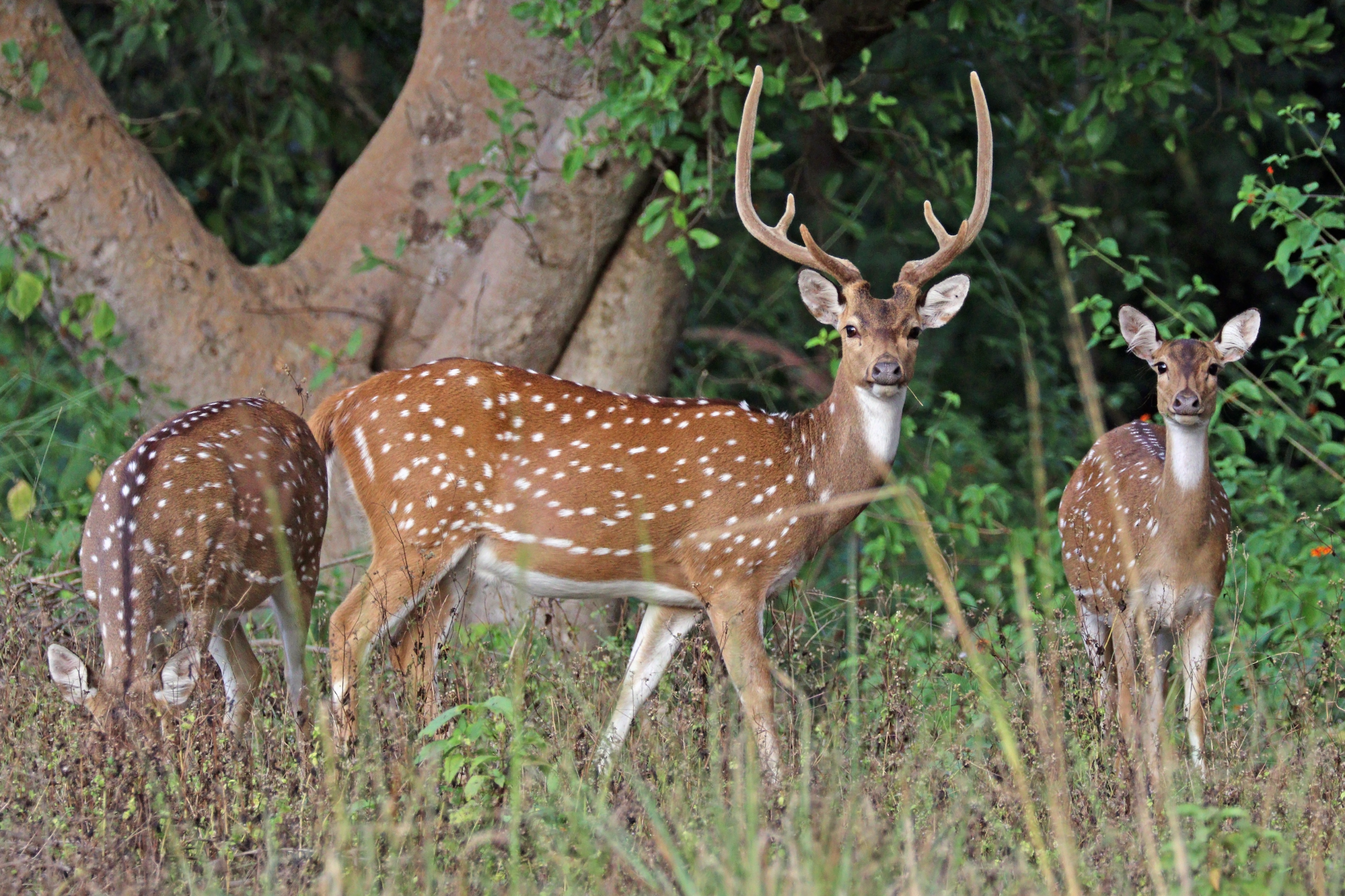 Spotted deer (Axis axis) male with two females, Kanha National Park, MP, India